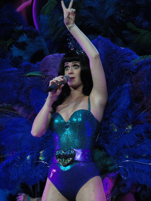 Katy Perry performing live in Seattle, WA in July 2011